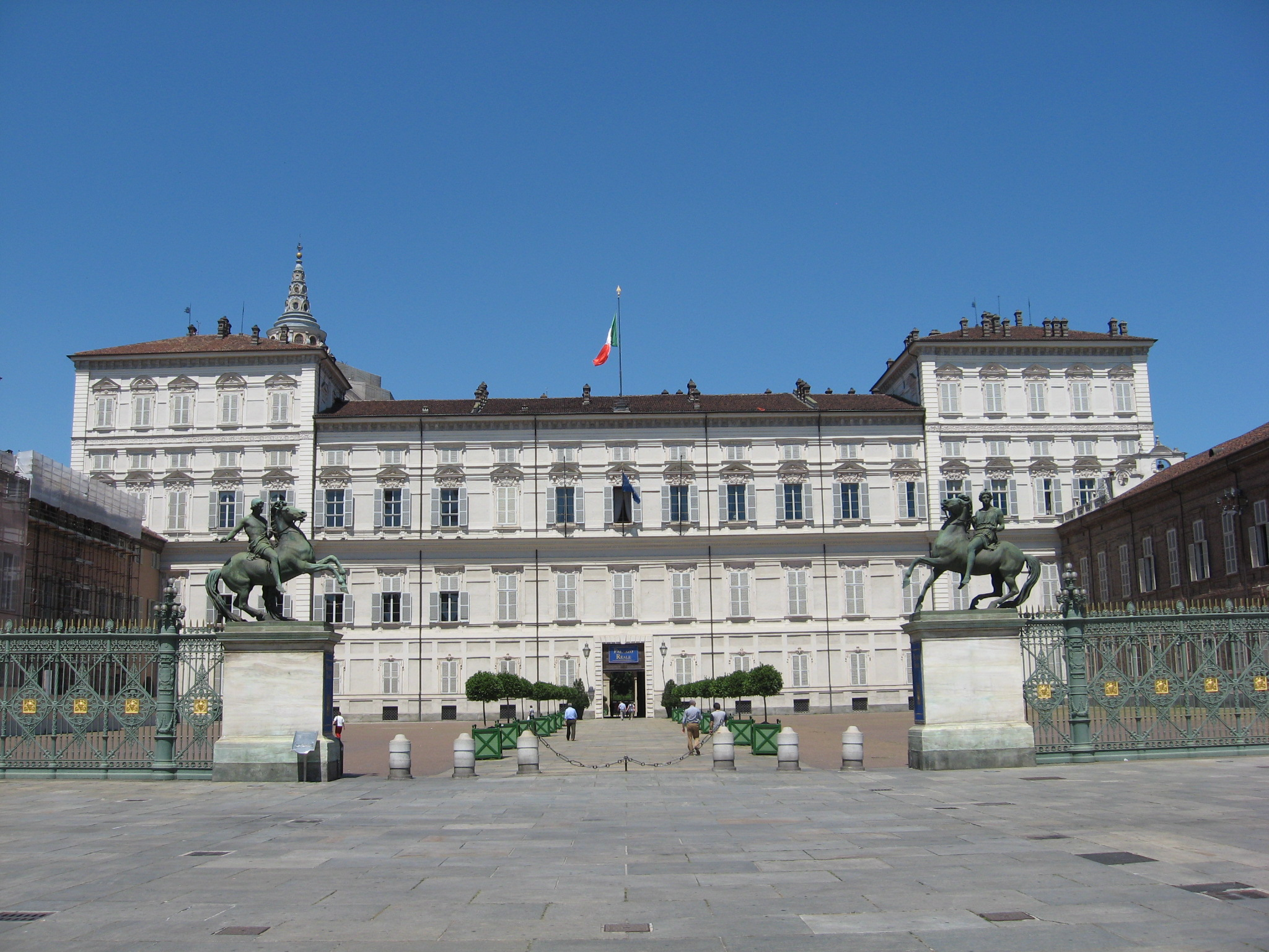 Royal Palace of Turin